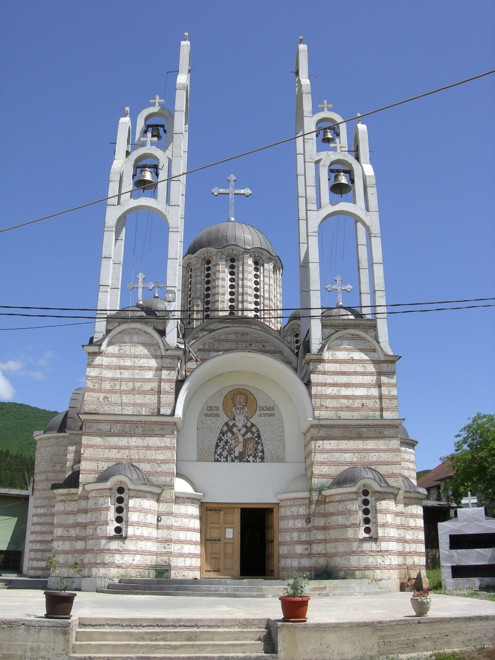 Church of St. Vasilije Ostroškog, Leposavić